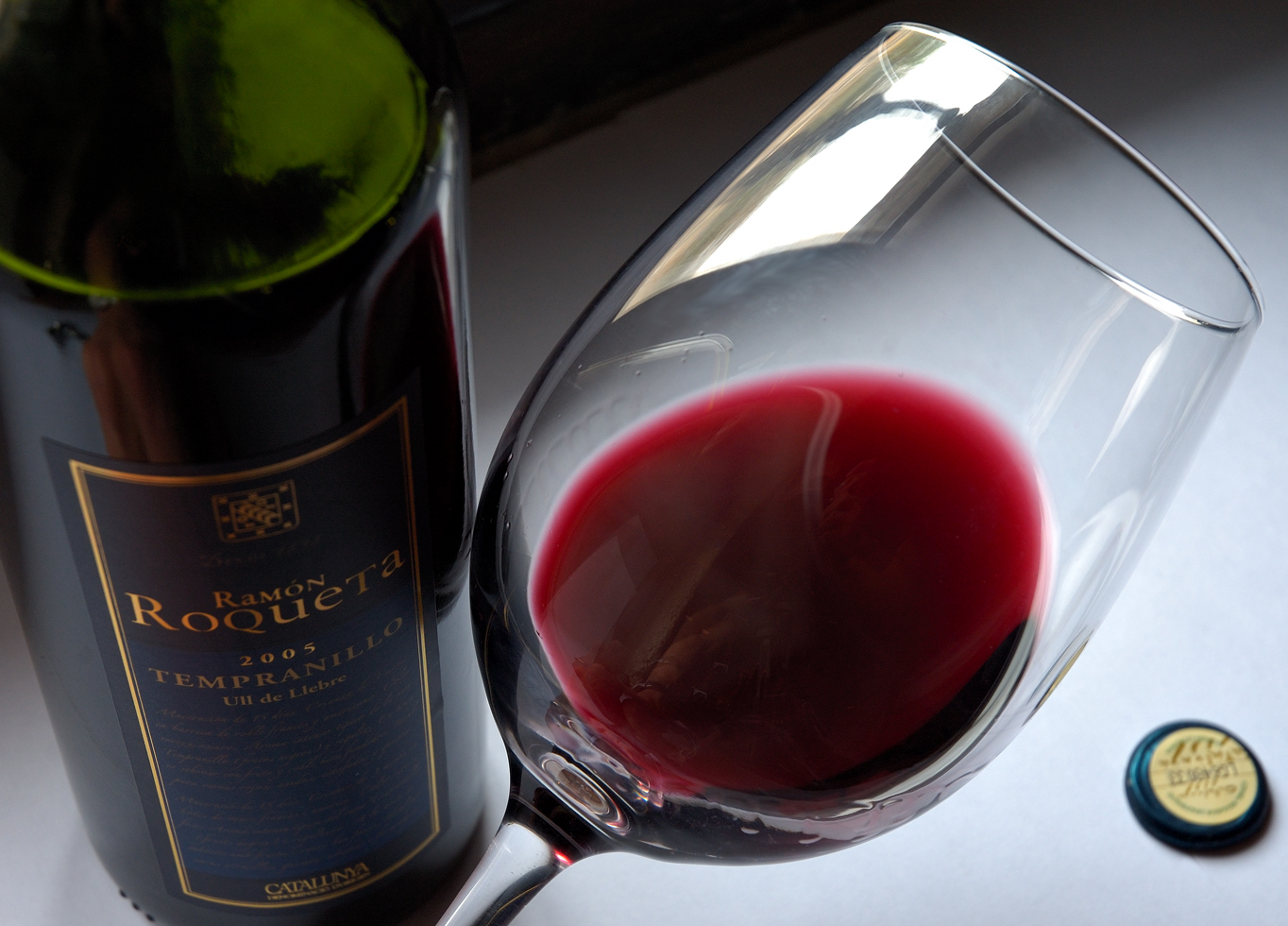 Tempranillo varietal wine bottle and glass, showing colour Shot with Nikon D70s